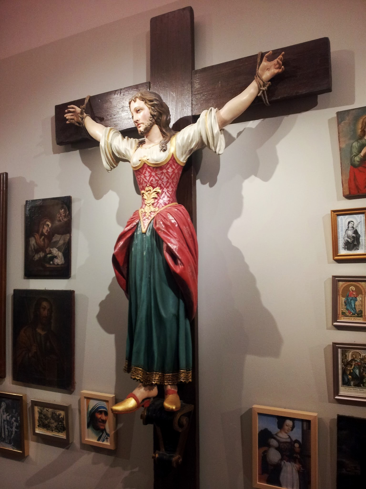 Saint Wilgefortis in the Museum of the Diocese Graz-Seckau in Graz, Austria. created in the 2nd half of the 18th century material: wood height of the figure: 107 cm height of the cross: 254 cm origin: Ursulinenkloster in Graz, Austria; unknown artist